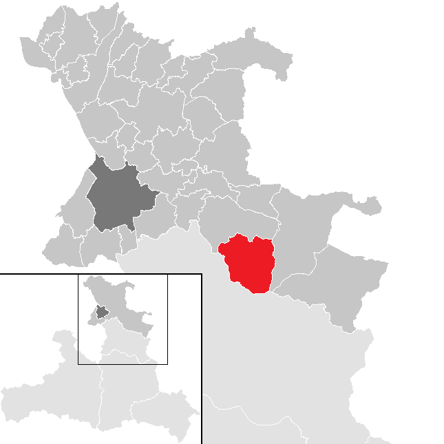 District Salzburg-Umgebung